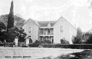 Museum building-George